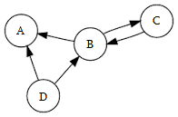 Directed graph